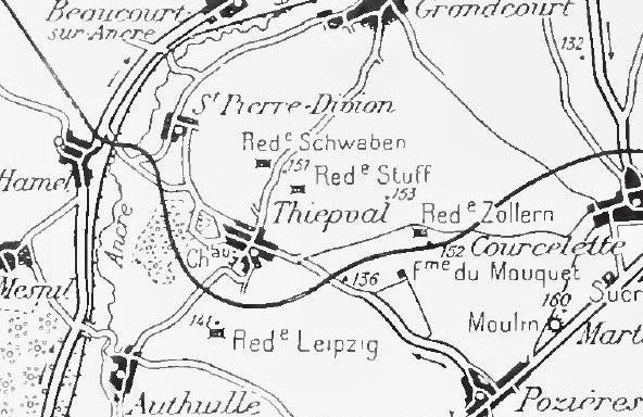 Diagram of the vicinity of Thiepval, September 1916 (Interweb search to identify draughtsman failed)